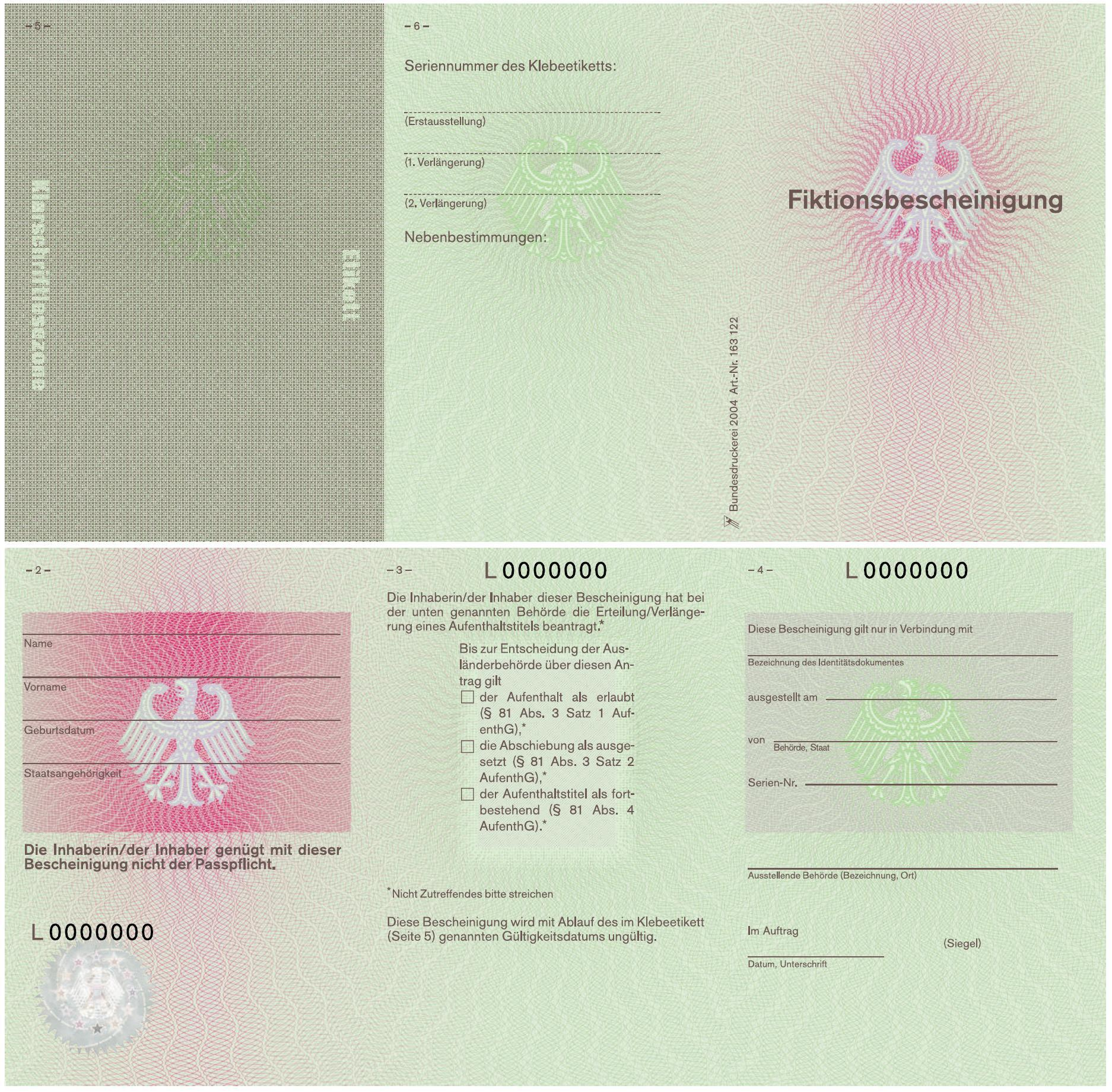 Basic form for residence document (provisional residence permit) for foreigners in Germany